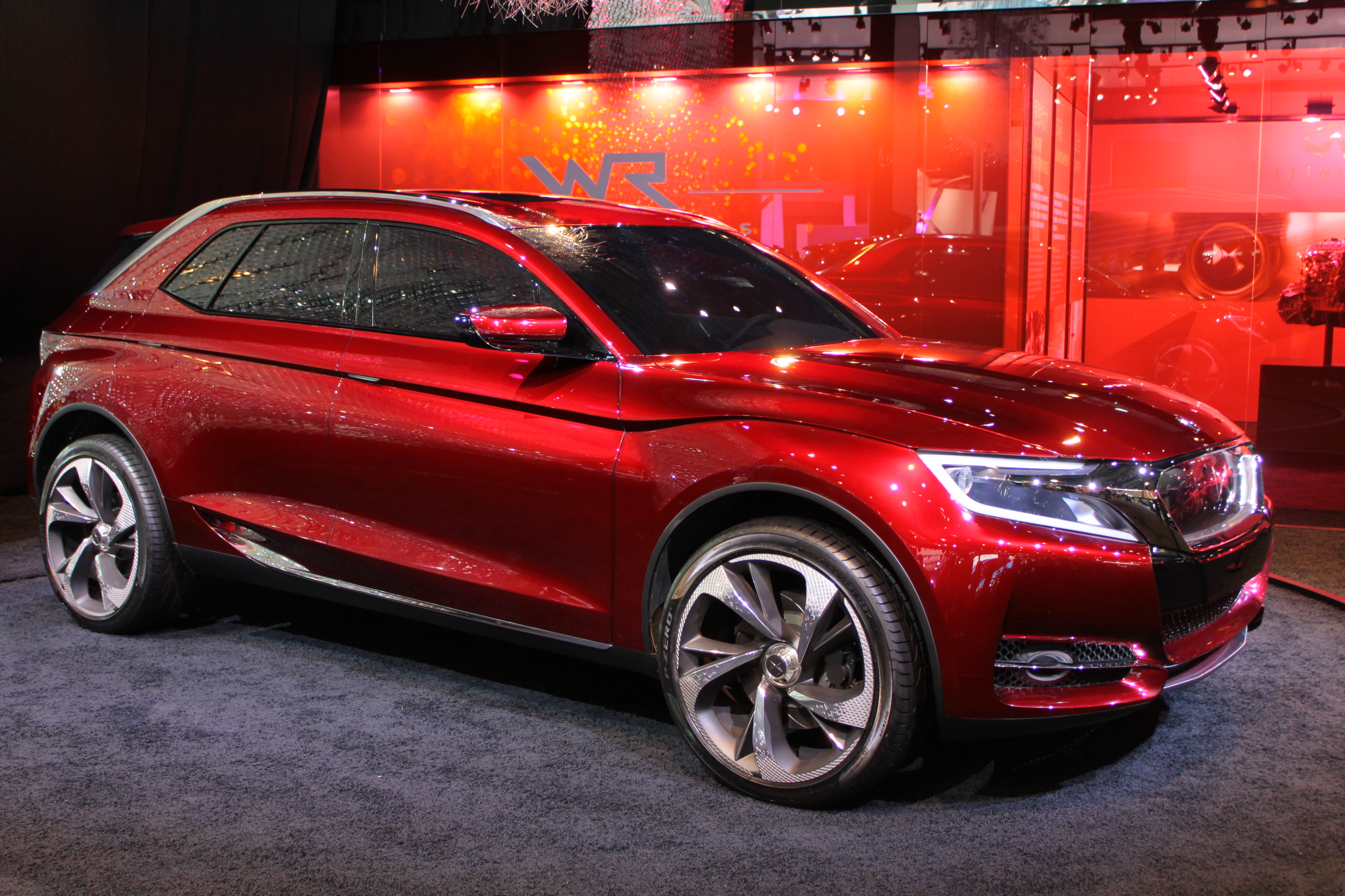 Citroën Wild Rubis concept car at Auto Shanghai 2013